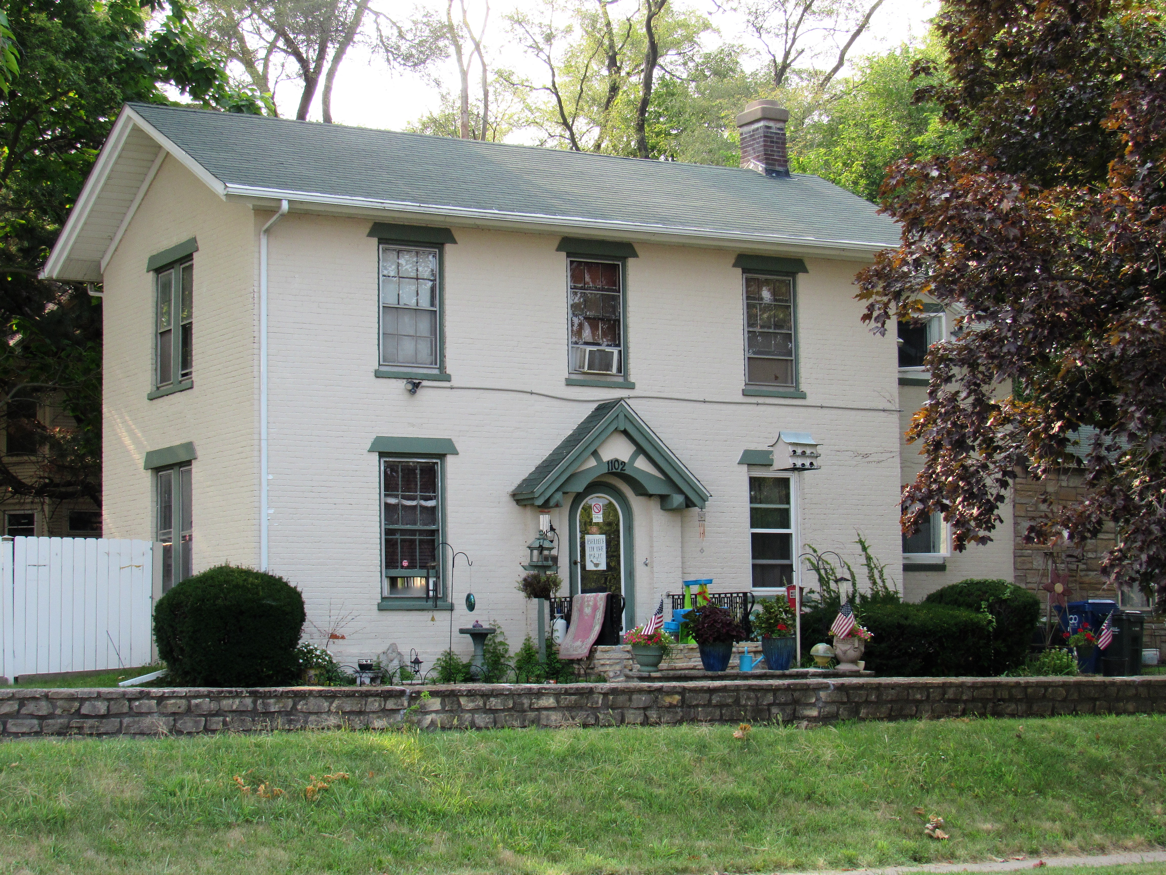 The house at 1102 Iowa Street, Davenport, Iowa. It is a contributing property in the Cork Hill District.